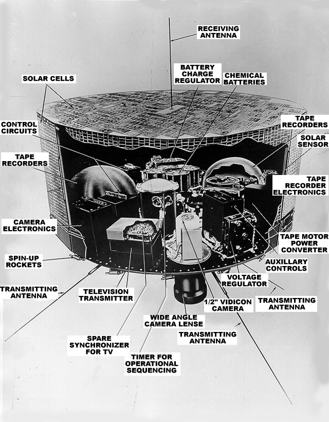 The main sensors that provided the cloud pictures were television cameras. The TIROS cameras were slow-scan devices that take snapshots of the scene below; one "snapshot" was taken every ten seconds. These were rugged, lightweight devices weighing only about 4.5 pounds (2 kg) including the camera lense. TIROS I was equipped with two cameras. One had a wide angle lense providing views that were approximately 750 miles (1207 km) on a side (with the satellite looking straight down), and a narrow angle camera with a view that was about 80 miles (129 km) on a side.